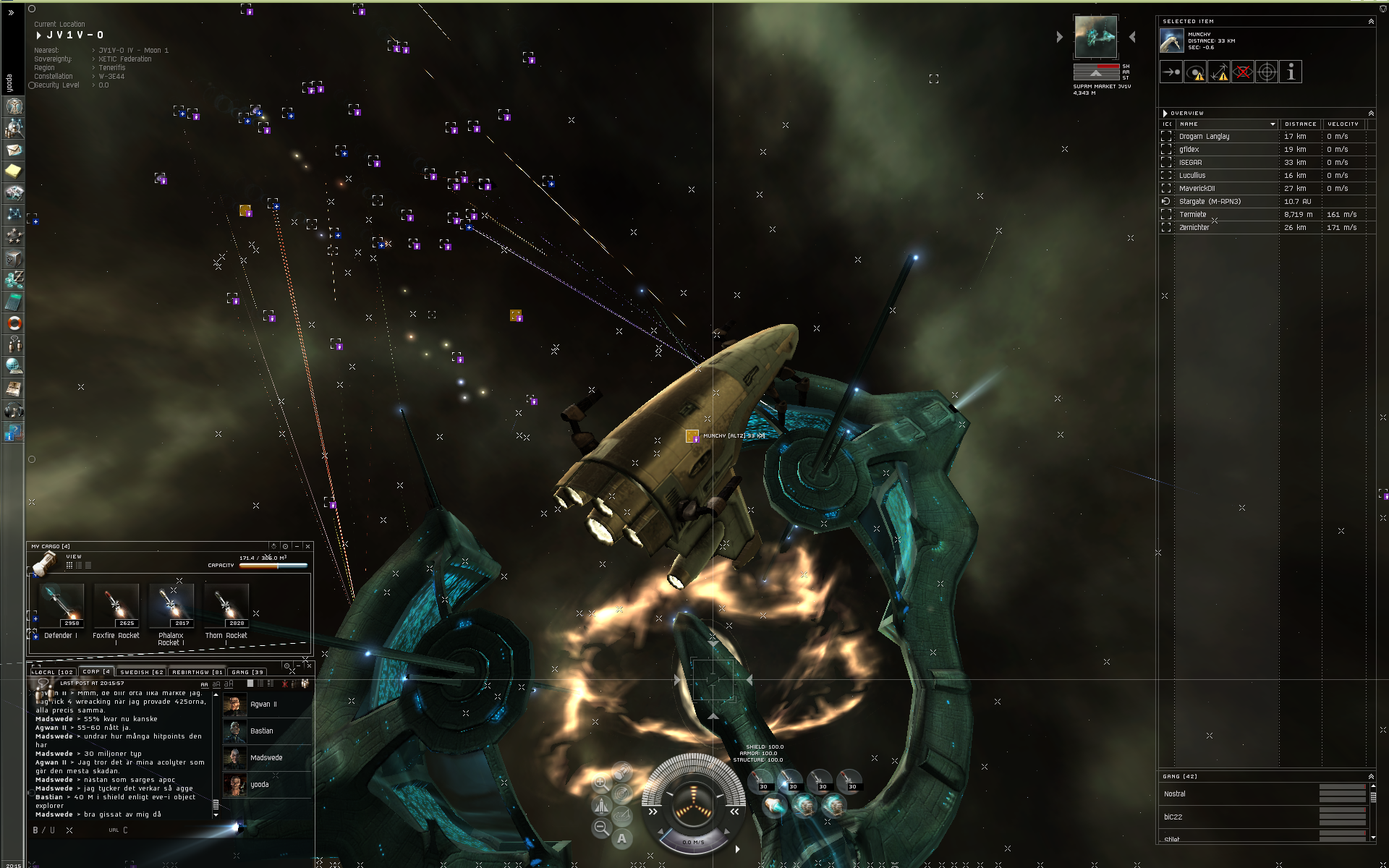 A battle in EVE-Online between a number of players and a station. This is a real-time screenshot from EVE-Online. Color Key: Green: Friendly to the player by default (cooperation members, the player's drones ect.) Blue: Friendly due to standings either set by the player or the player's corporation. Purple: Friendly members of the fleet the player is in.